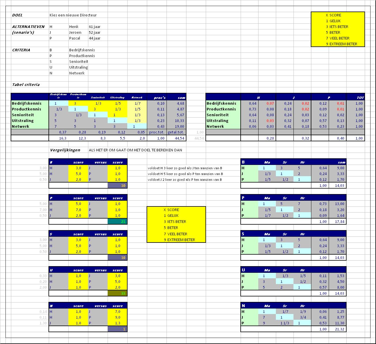 overview spreadsheet with calculation of an AHP model with 5 criteria and 3 altenatives